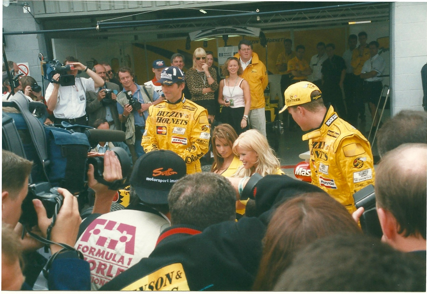 British Grand Prix 1998